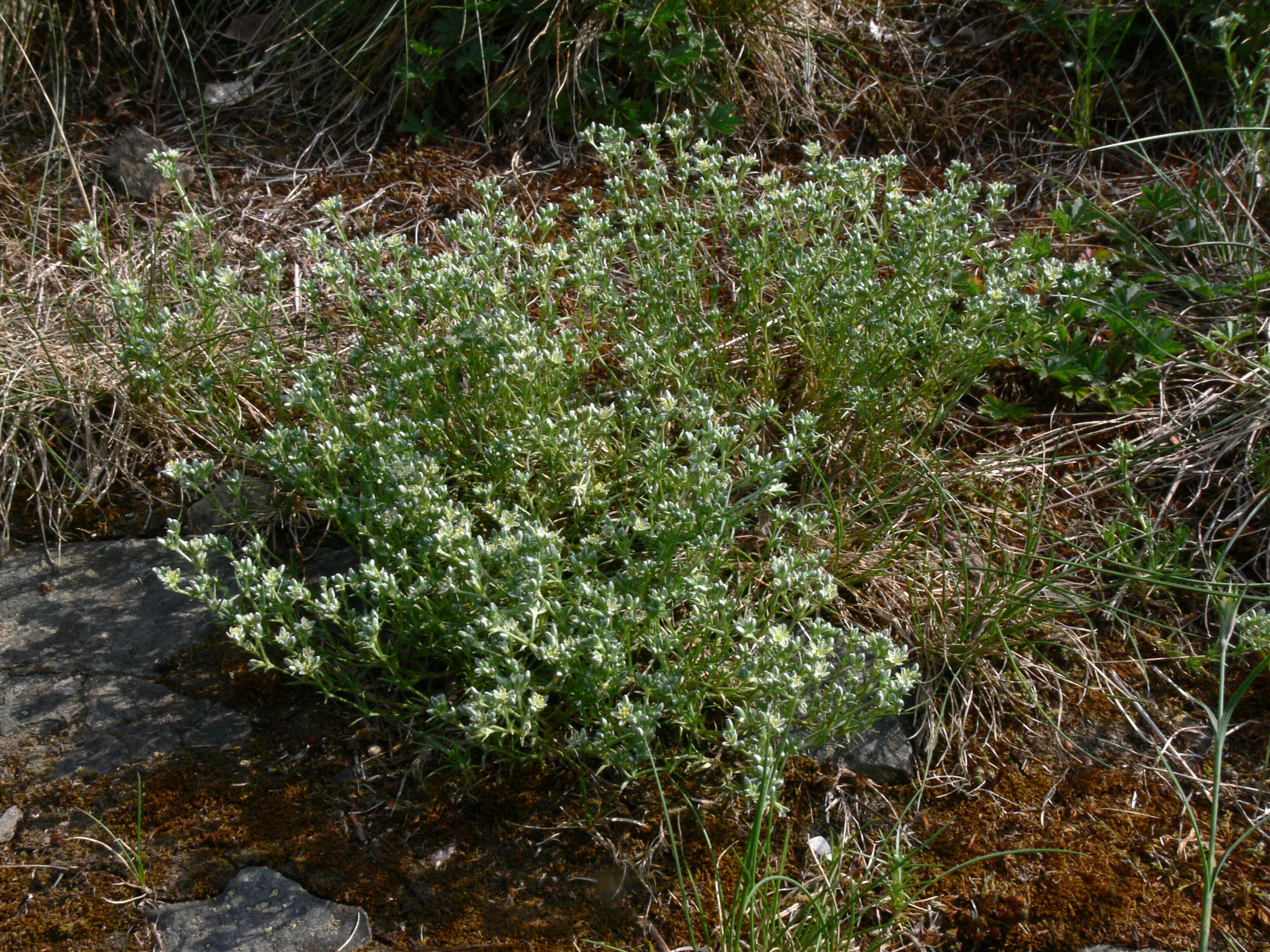 perennial knawel